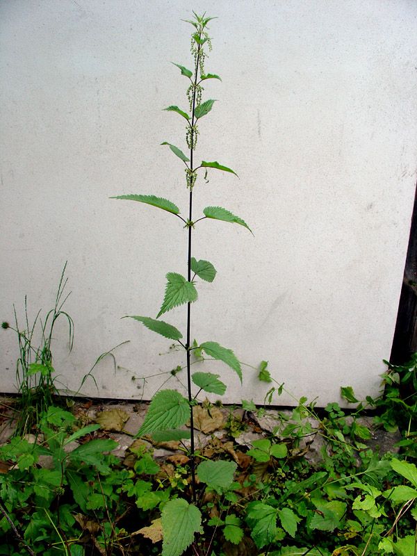 Urtica divoica -floweringphoto from Jaroměř in Czech Republic